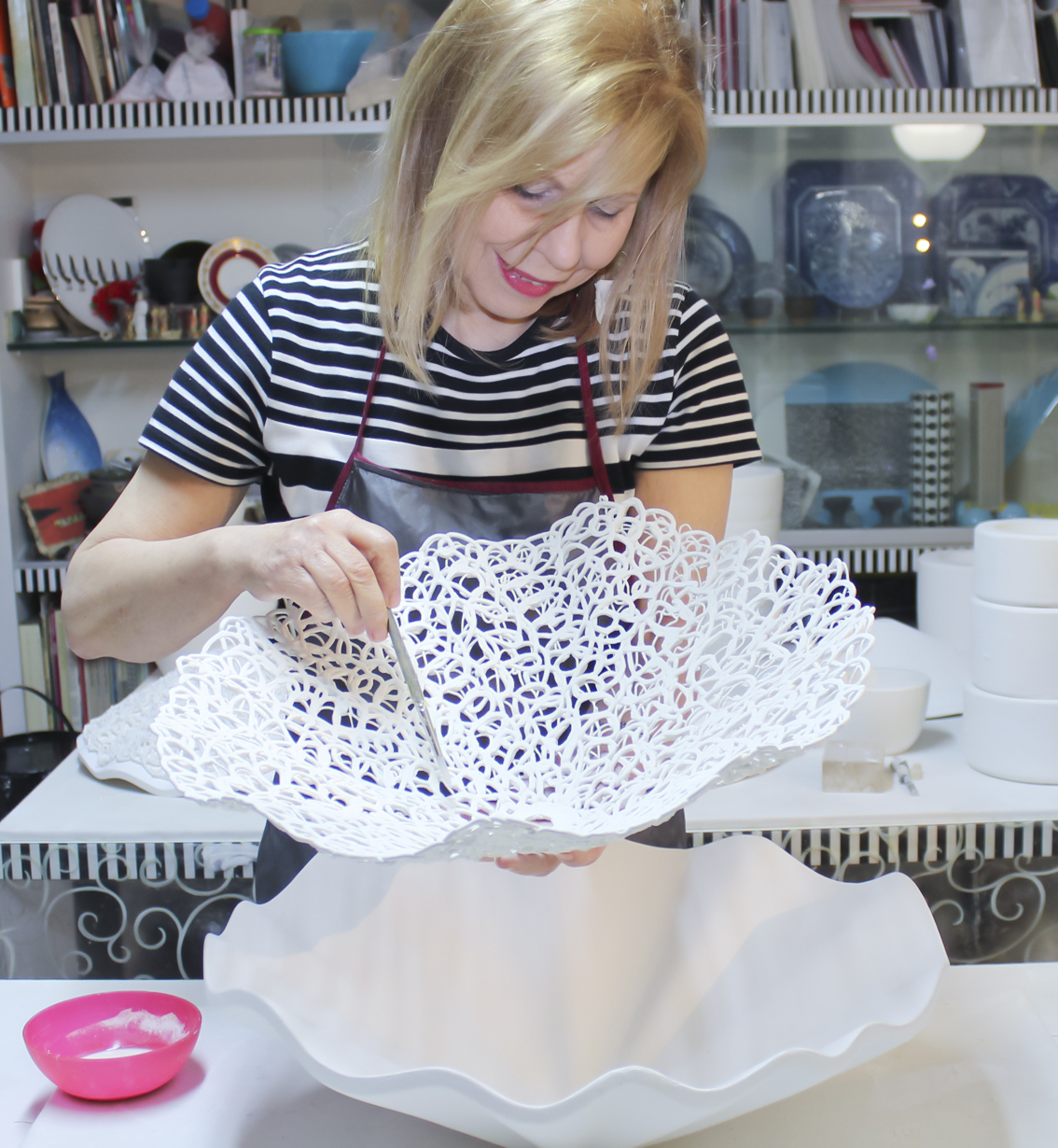 Antonella Cimatti while she is creating a "crespina", her reinterpretation of traditional objects.